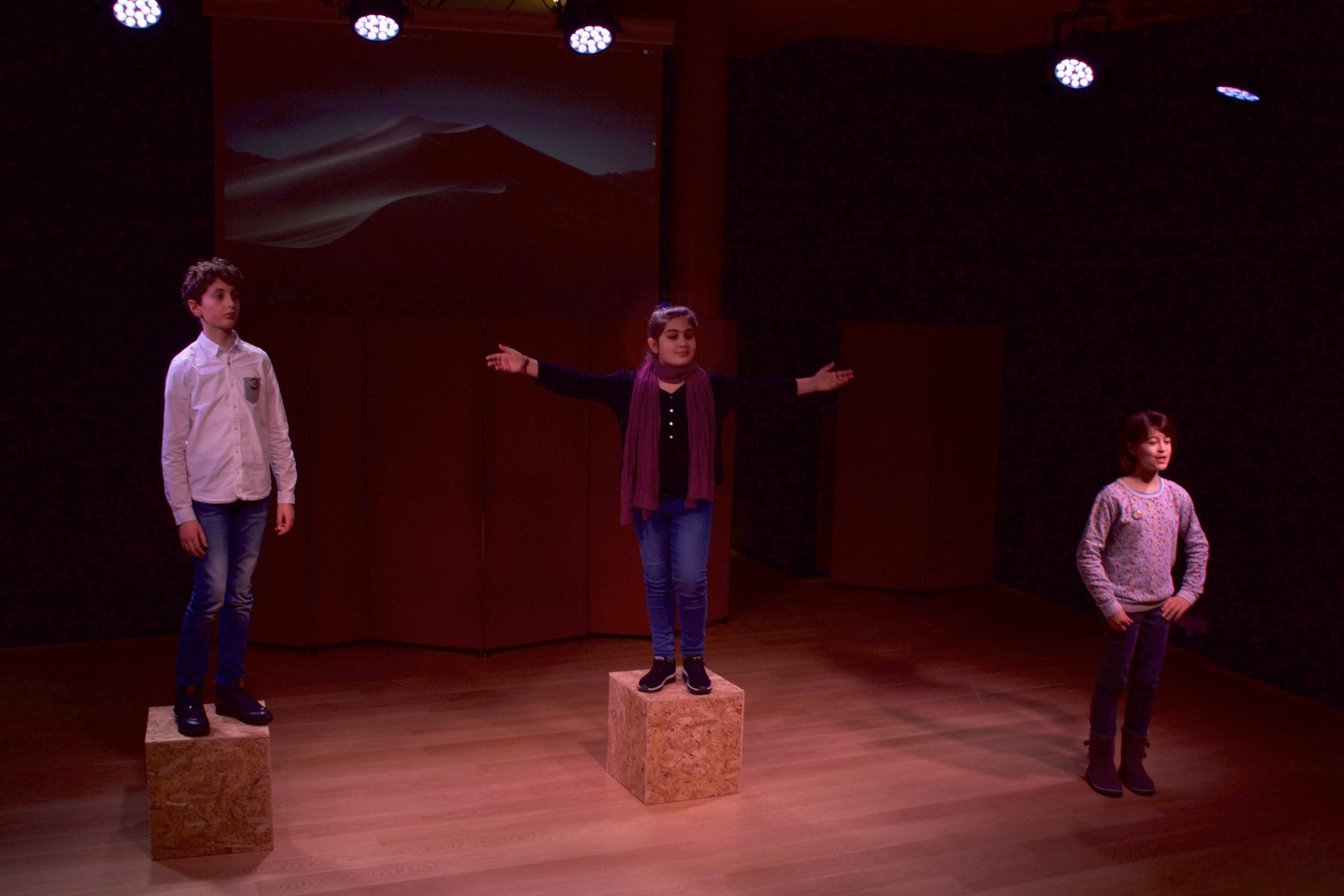 Theatrical reading performance during the 2020 Night of Reading by young actors from Yvelines (78)